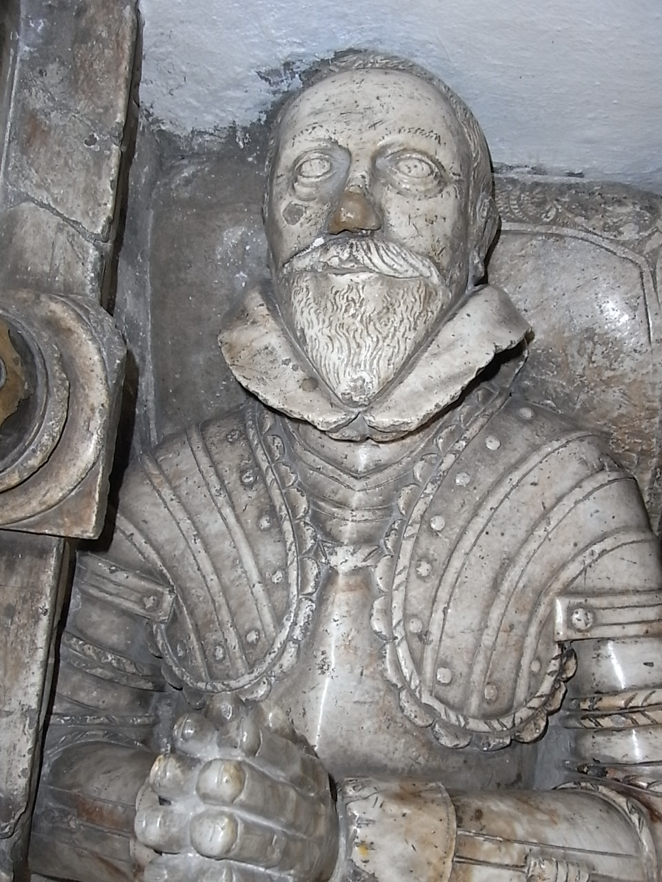 Effigy of Sir Richard Berkeley, Gaunt's Chapel, Bristol